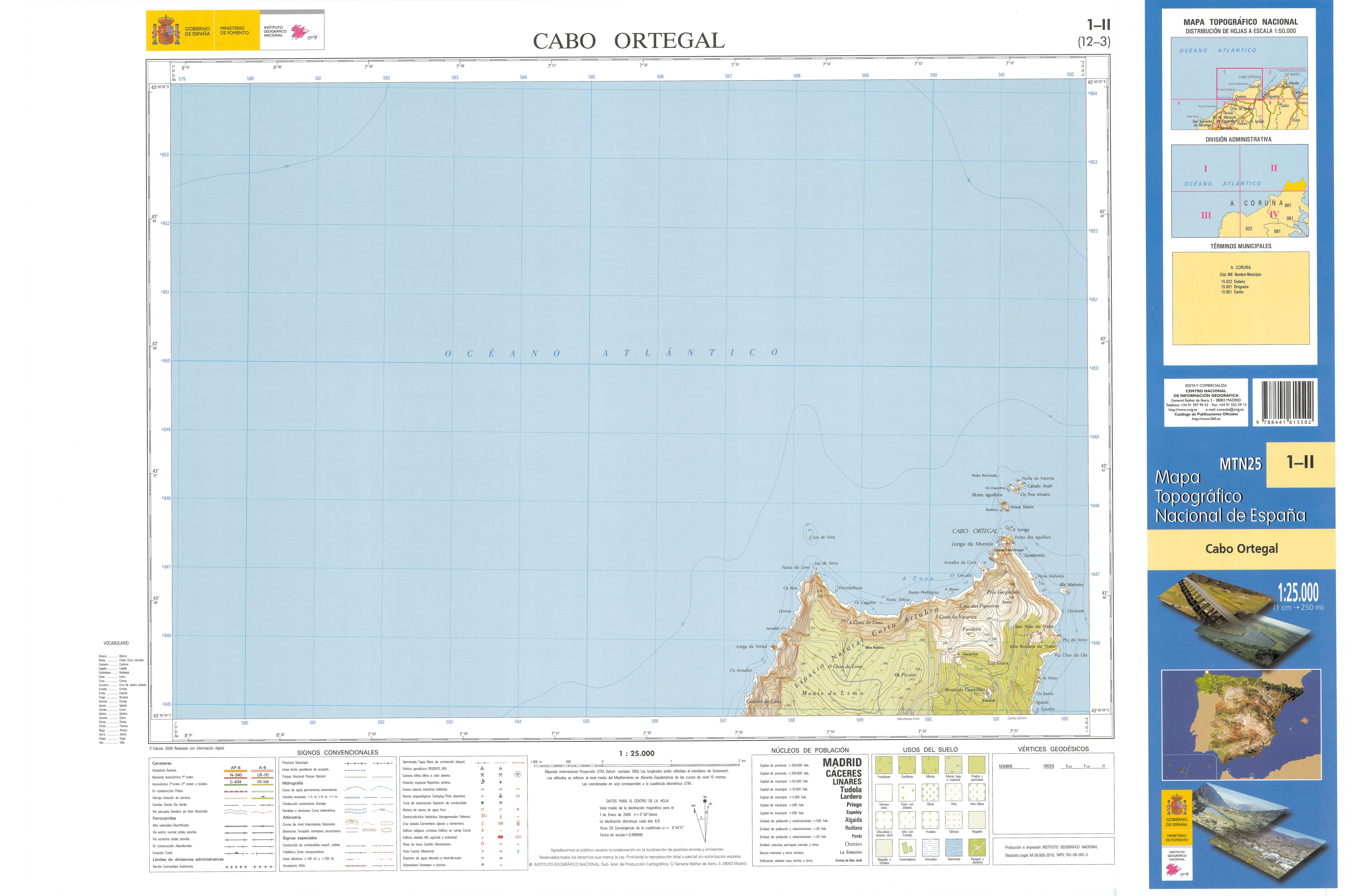 Fragment 0001c2 of the National Topographic Map of Spain in 2009 at a scale of 1:25000 printed and scanned with a resolution of 250 ppi. It shows Cabo Ortegal.